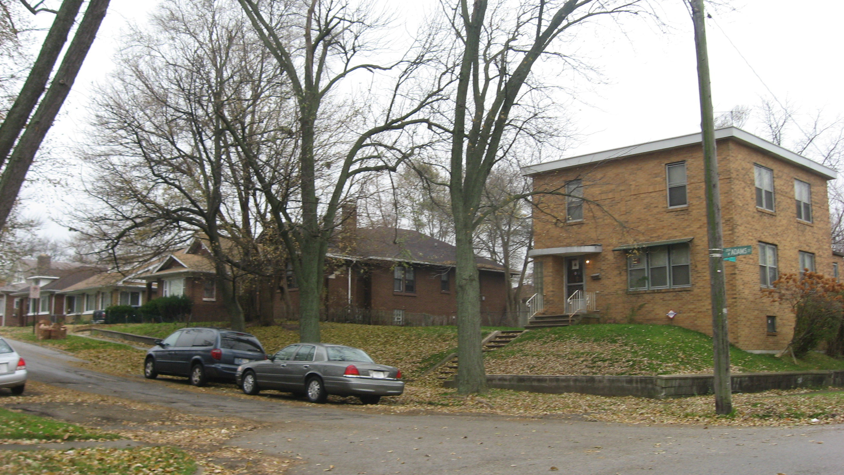 Houses on the western side of Adams Street, seen from the Thirty-sixth Avenue intersection, in Gary, Indiana, United States. From right to left, they are 3600, 3612, 3616, 3624, 3630, and 3640 Adams. These houses are part of the Jefferson Street Historic District, a historic district that is listed on the National Register of Historic Places.